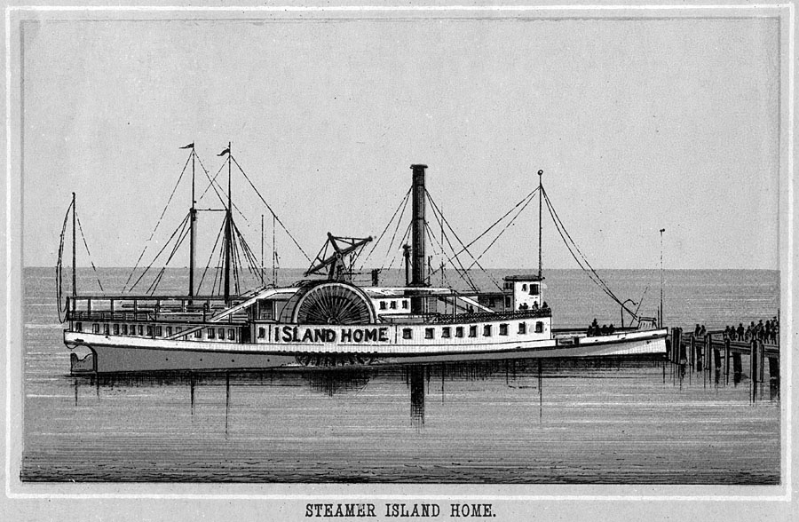 Sidewheel steamer IslandIsland Home.